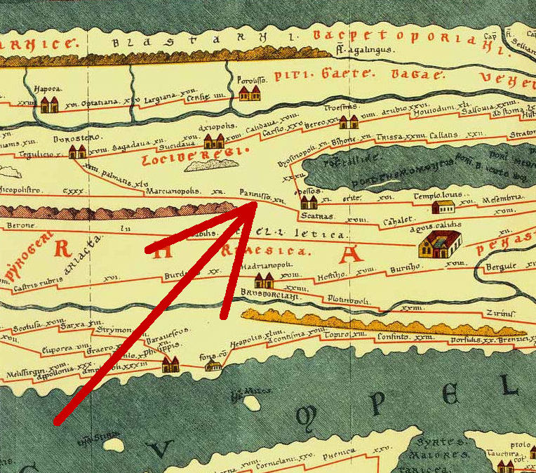 Cutout from Tabula Peutingeriana, 1-4th century CE. Facsimile edition by Conradi Millieri, 1887/1888; the red arrow shows Tabula Peutingeriana places in modern Bulgaria; on the map: Panisso (this is also th old name of Kamchiya river, who has to be crossed at this place); in modern Bulgaria: village Grozdyovo.